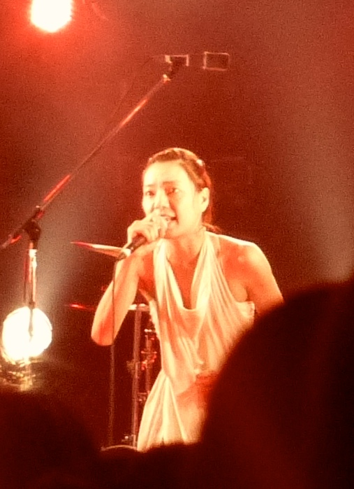 Cocco (真喜志 智子 Makishi Satoko, born January 19, 1977 in Naha, Okinawa) is a female J-pop / folk rock singer.